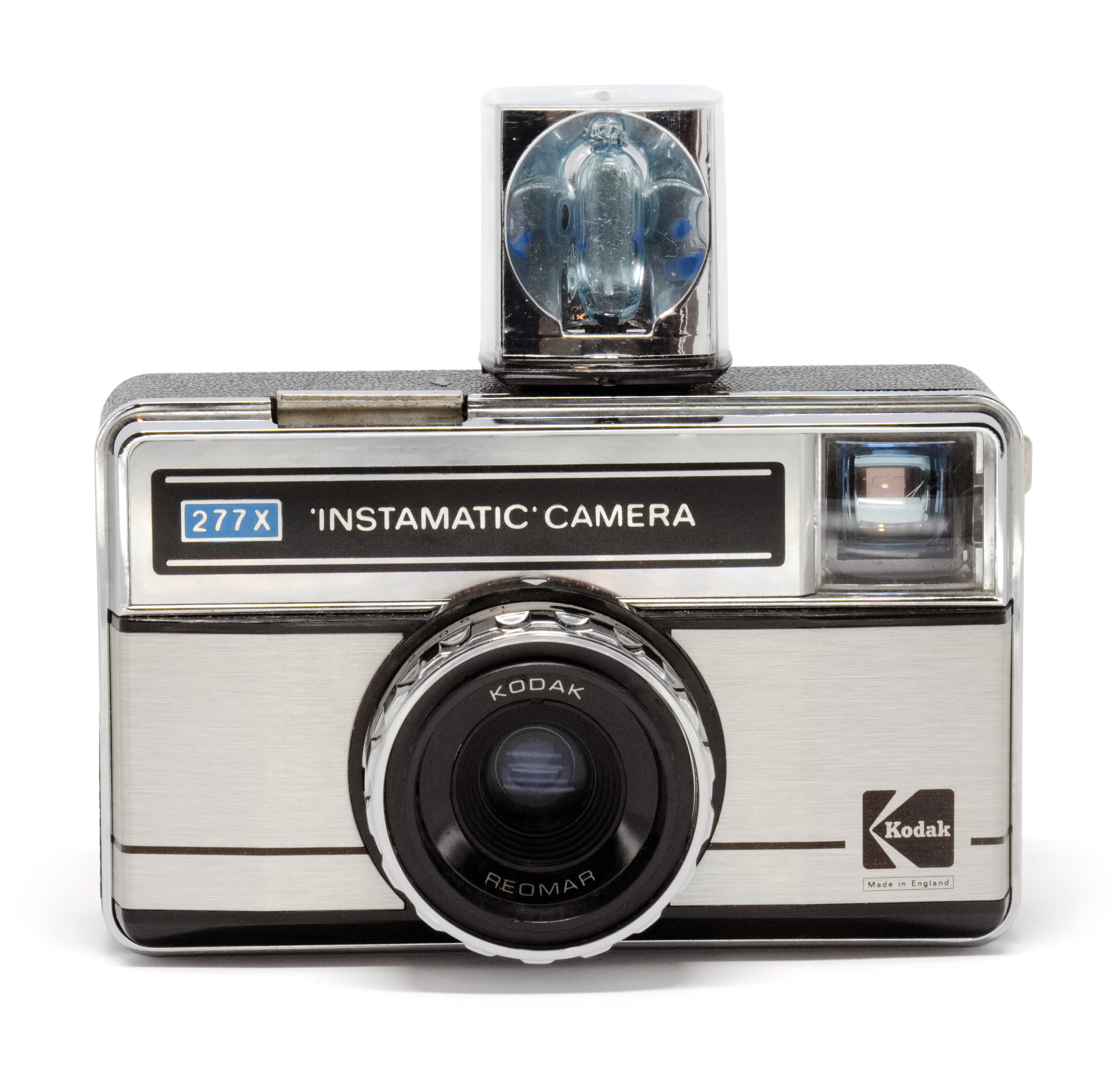 Kodak Instamatic 277 X "point and shoot" 126-format camera with "Magicube" flashbulb cartridge attached